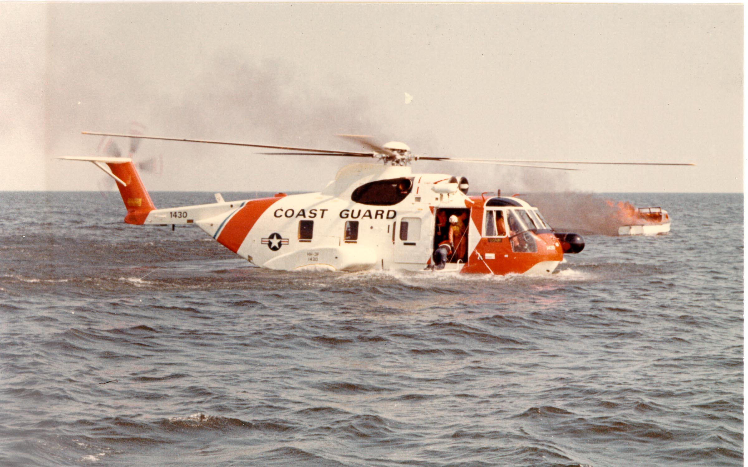 USCG HH-3F Pelican on the water, illustrating the Pelican's amphibious capability.